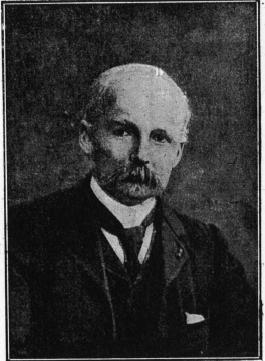 Fernand de Saintignon (1946-1921)